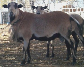 A pair of Barbados blackbelly sheep rams.